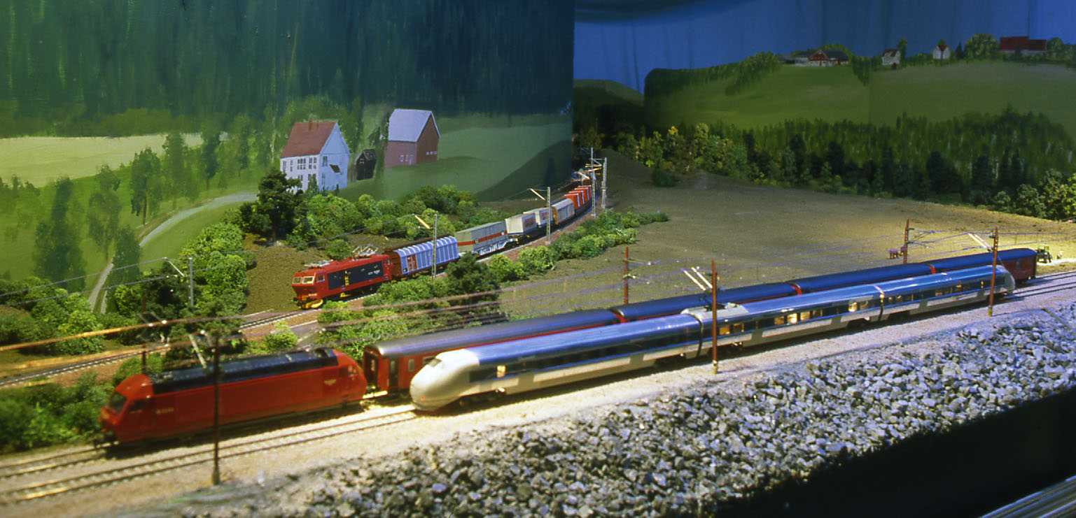 Model railway exhibition Gardermoen